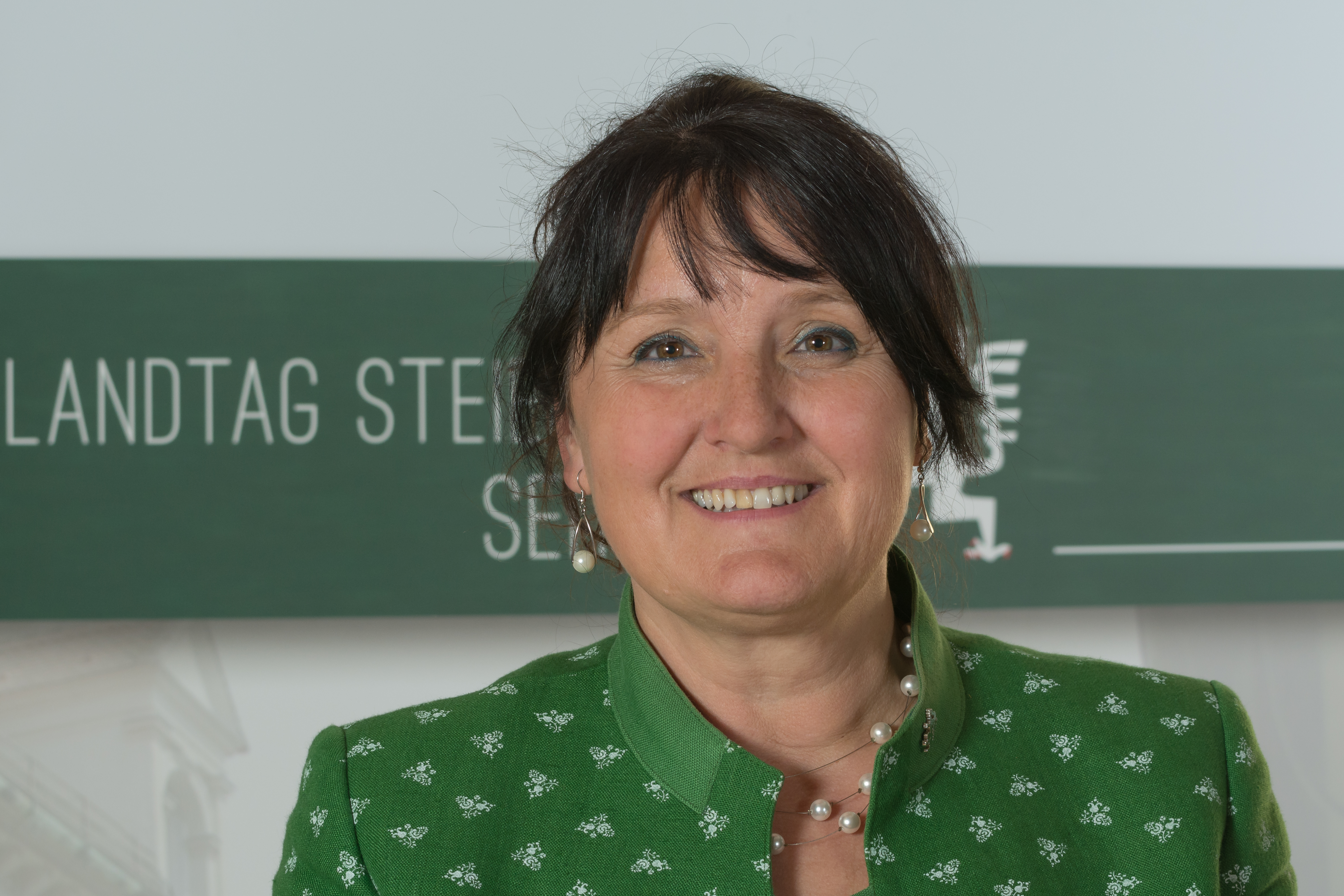 Manuela Khom, politician, 2016 Member of Steiermärkischer Landtag